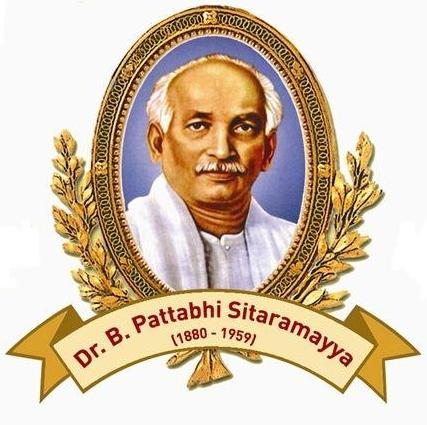 Dr Bhogaraju Pattabhi Sitaramayya a eminent freedom fighter and a multifaceted genius and founder of Andhra Bank.